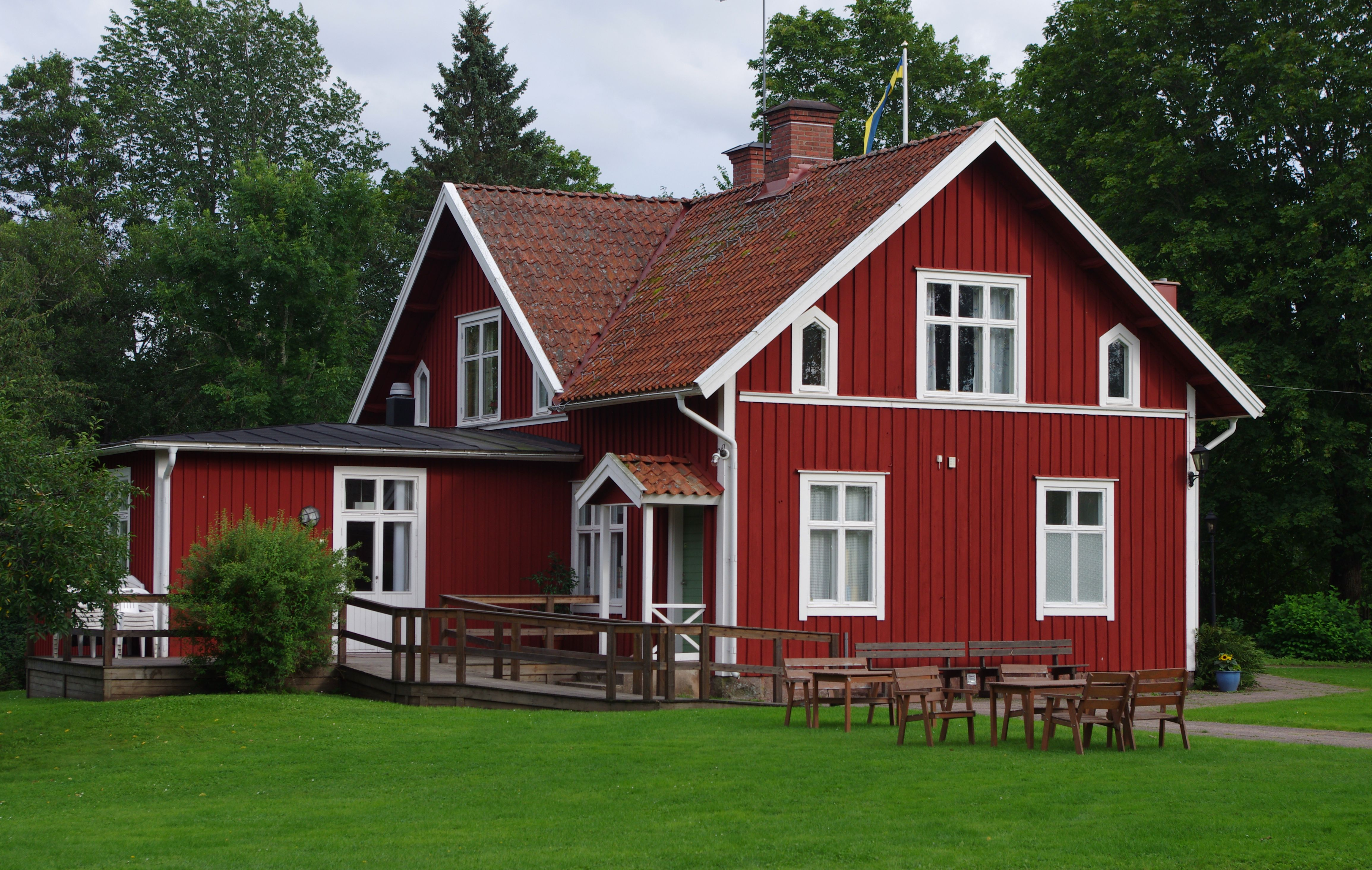 Eggby församlingshem (house for the local congregation) i Eggby, Sweden.